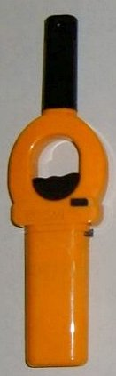 Lighter